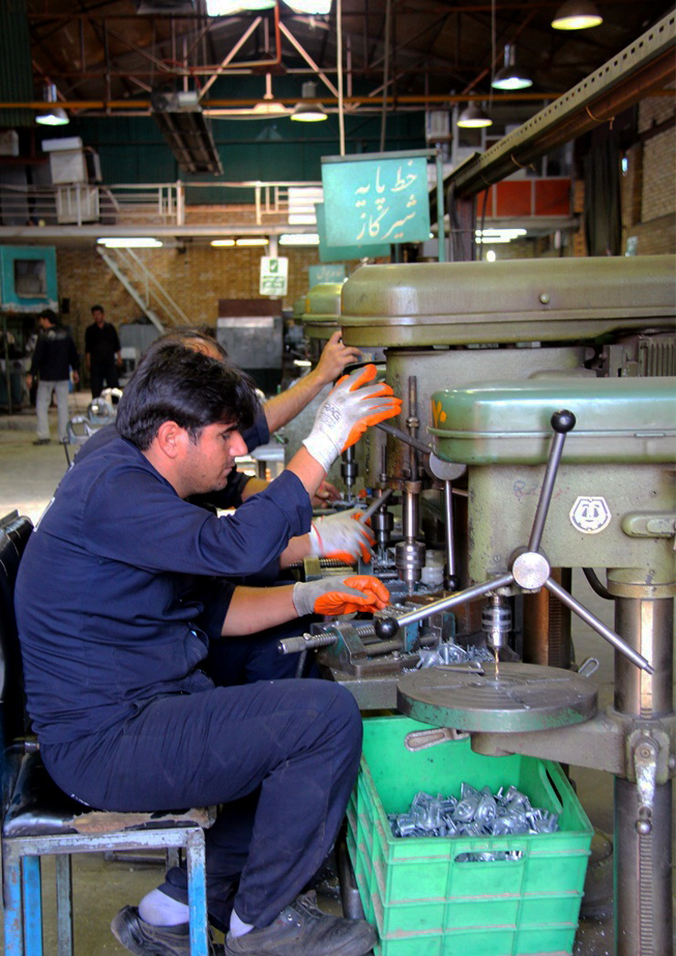 Iran Shargh Company & Factory - Nishapur